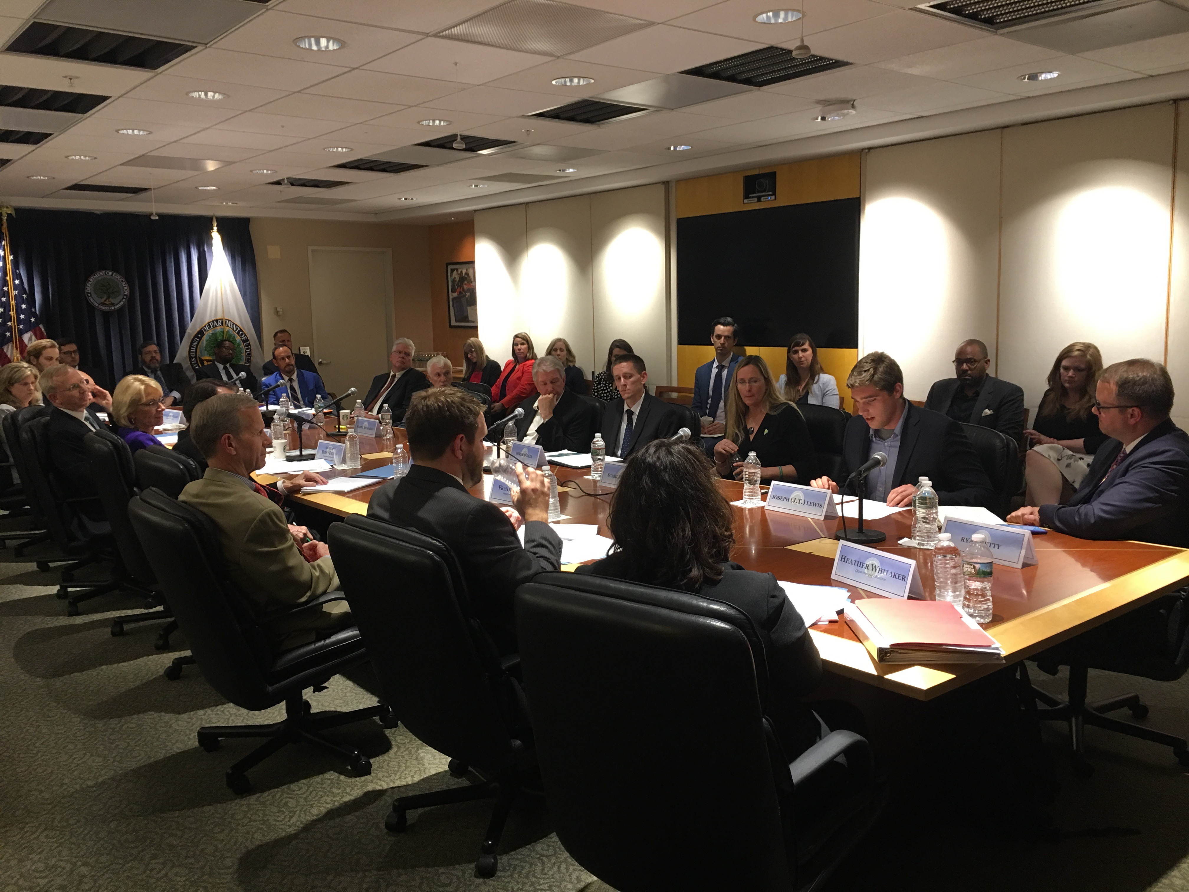 JT Lewis testifies to Betsy Devos' "Commission on School Safety in Washington, D.C..